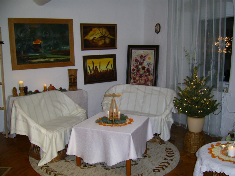 Christmas time in Studio Anders, Austria